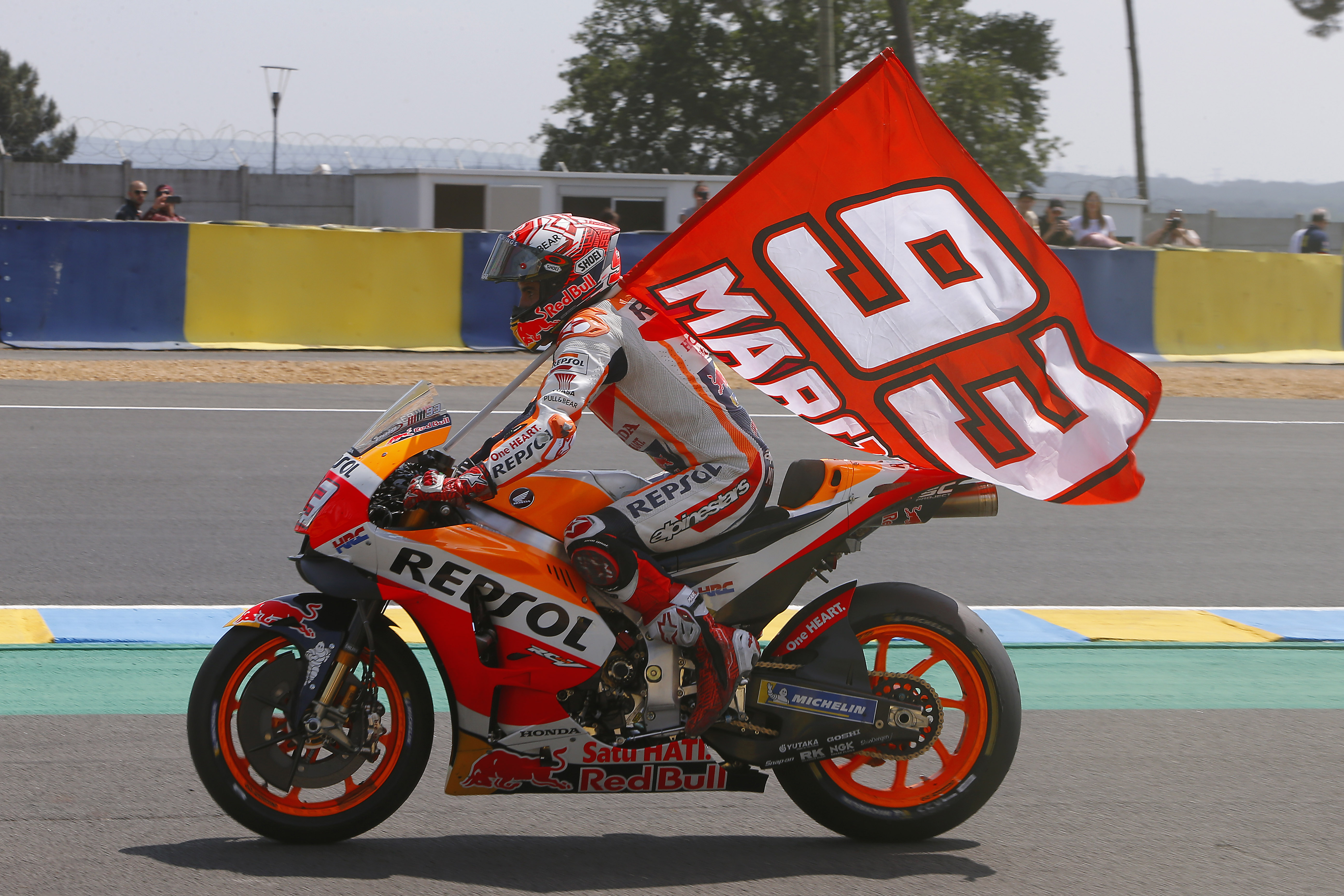 Marc Márquez, riding his Repsol Honda, celebrating with his flag after winning the 2018 French Grand Prix.